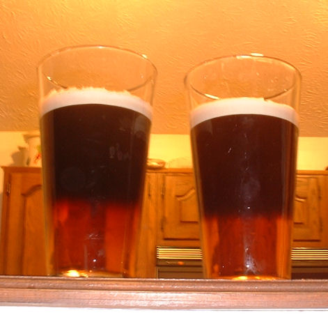 This is a black and tan made with Guinness (draught nitro can) and Bass Ale (bottled).